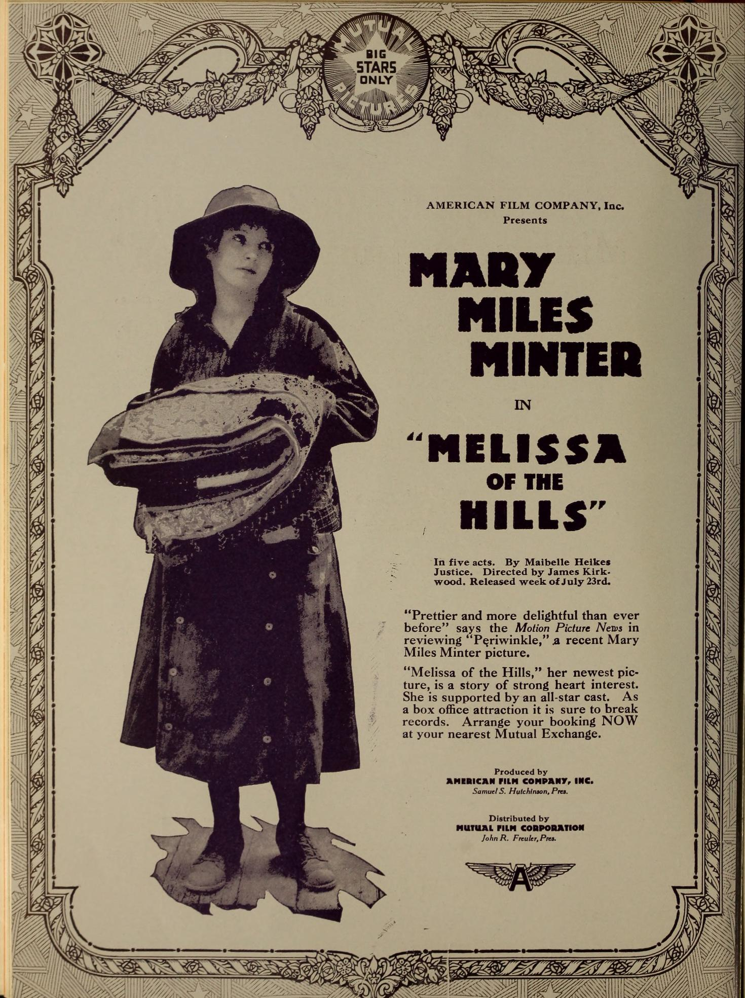 Advertisement in Moving Picture World, Jul 1917 for the American film Melissa of the Hills (1917).